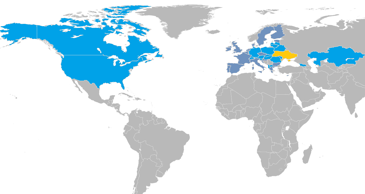 Інавгурація Петра Порошенка